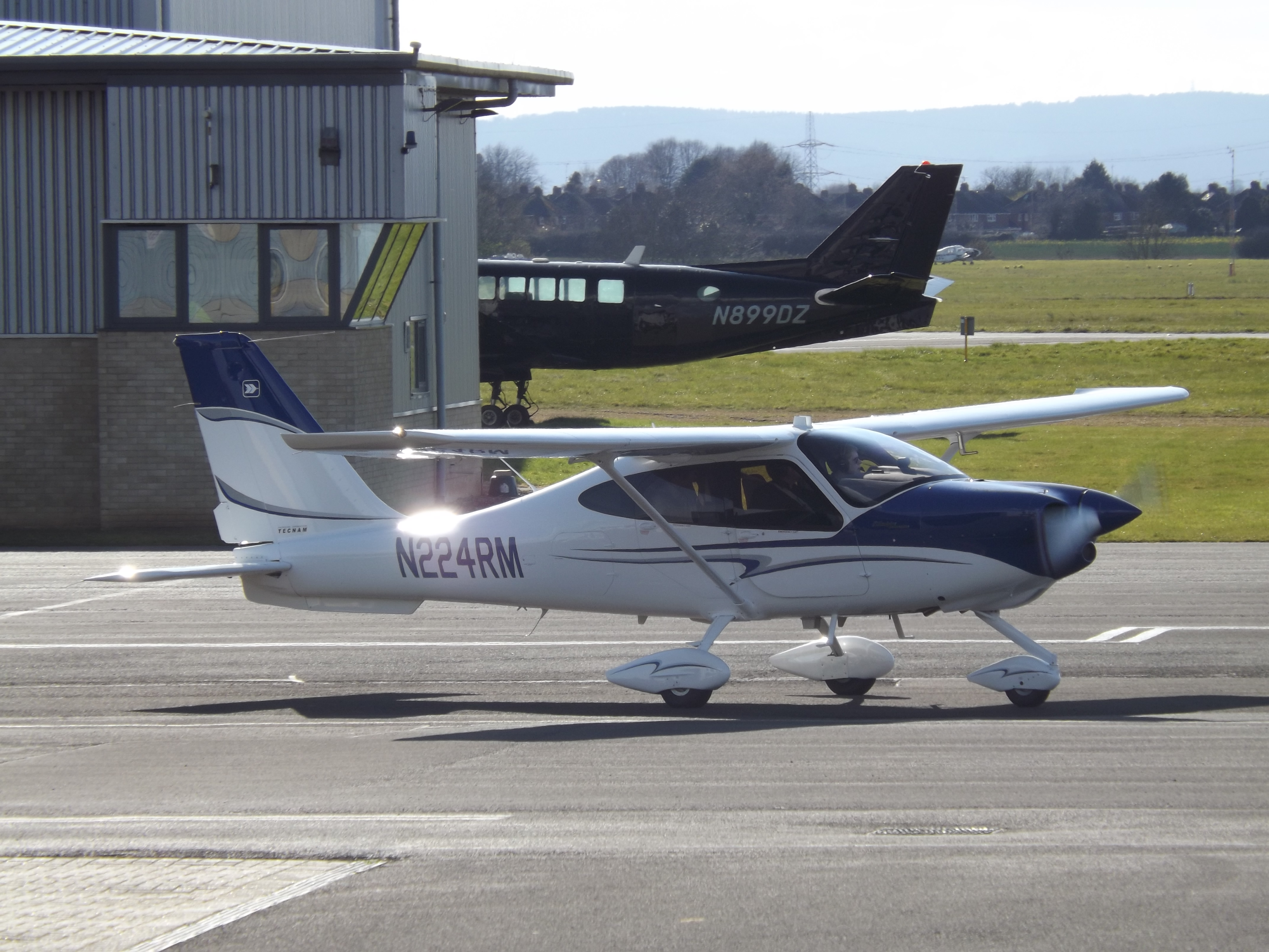 At Gloucestershire Airport.